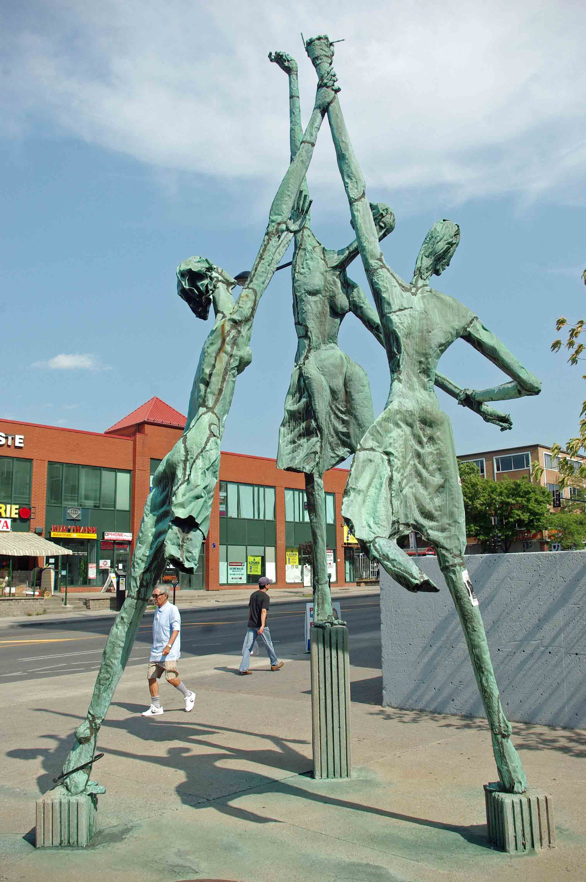 This sculpture is part of the Plaza Côte des Neiges shopping mall in the Côte des Neiges district of Montreal. The sculptor is notable in that his work was exhibited at Expo 67.